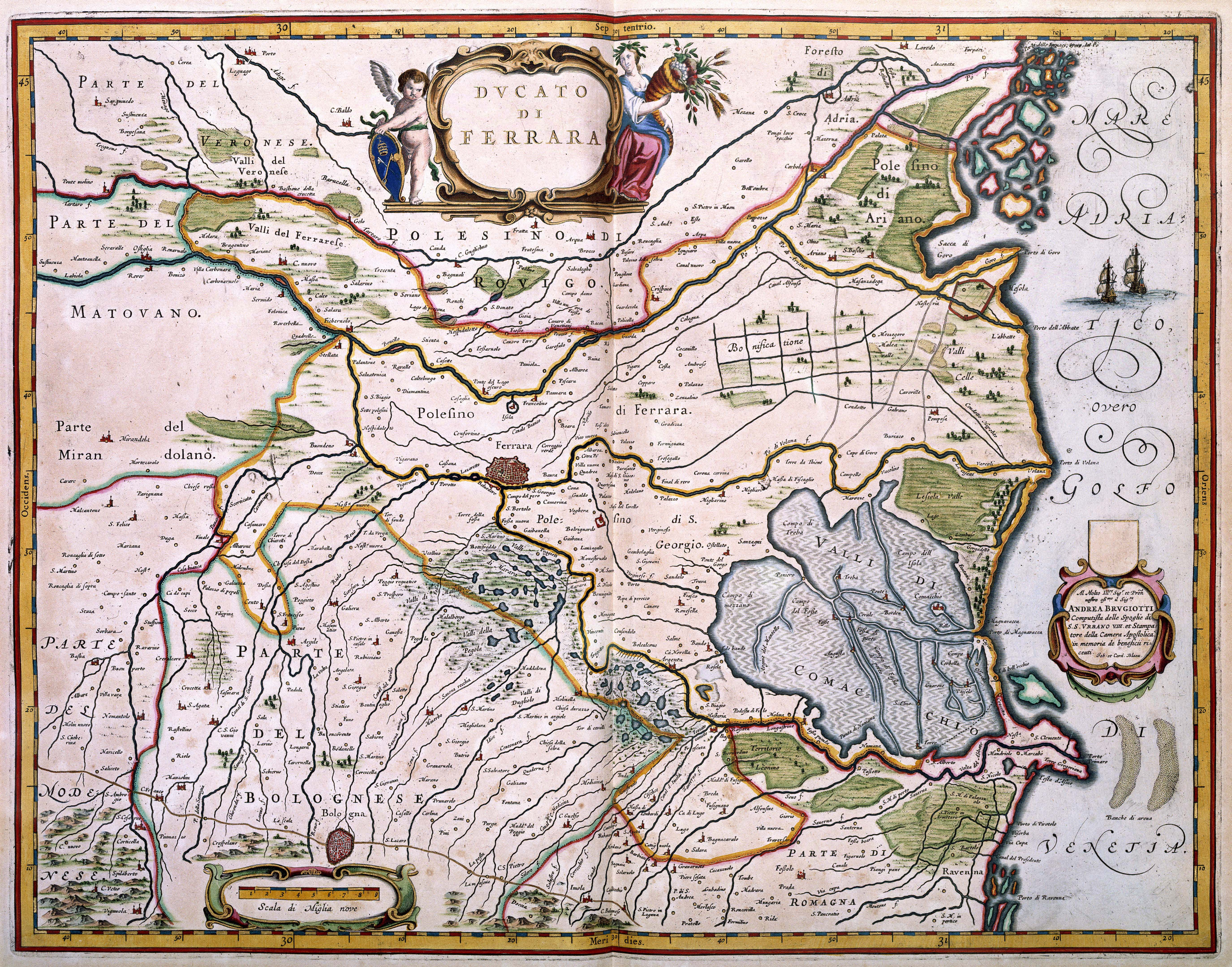 This map of Ferrara was published in 1640 by Joan Blaeu (1598-1673) and Cornelius Blaeu (1610-1642) in the third volume of the Atlas Novus. Blaeu copied the map after an example in the map book Italia by the Italian cartographer Giovanni Antonio Magini (1555-1617).